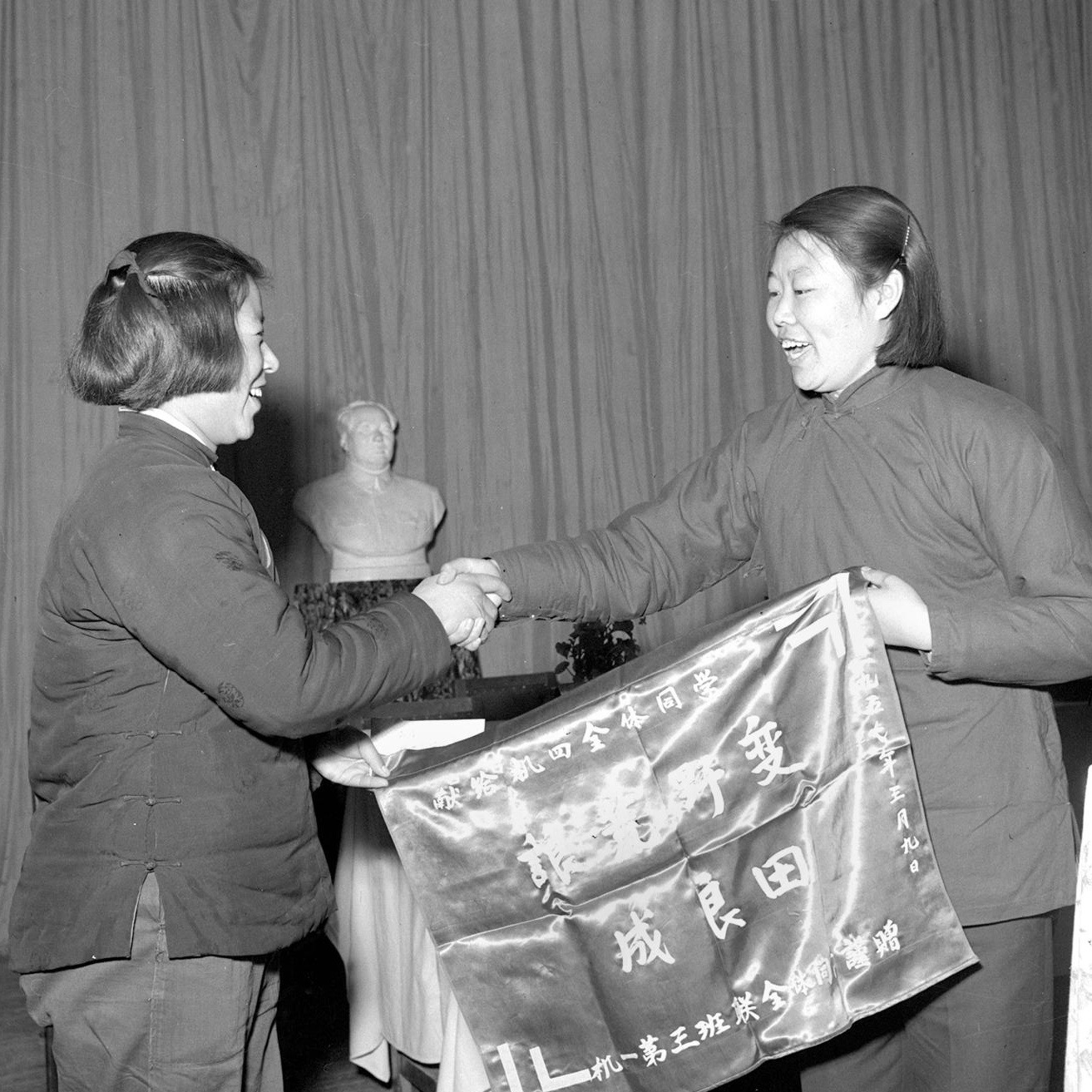 Liang Jun, the first female tractor driver in China, has graduated from Beijing Academy of Agricultural Mechanization in 1957. 中文（中国大陆）: 中国第一个女拖拉机手梁军在北京农业机械化学院读完了大学四年级的课程，将和同学们一起到北大荒去垦荒。